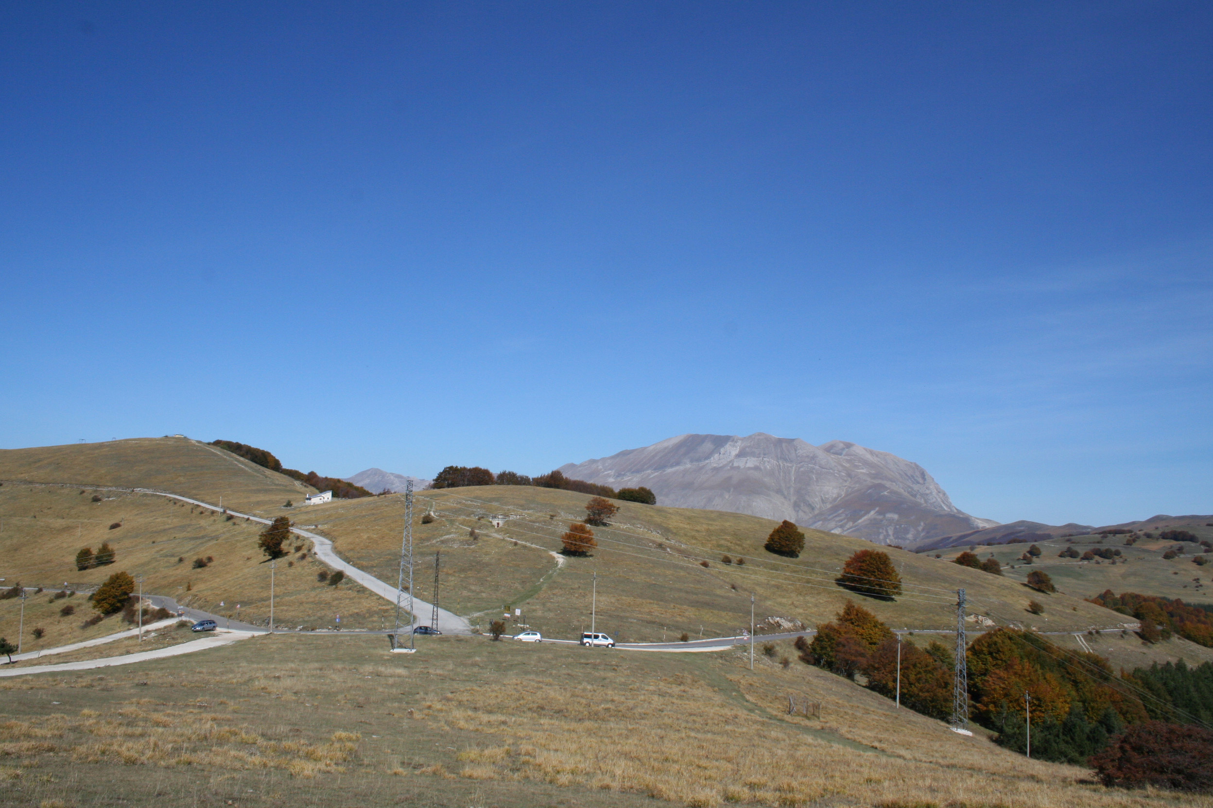 Valico di Forca Canapine che divide le province di Perugia ed Ascoli Piceno